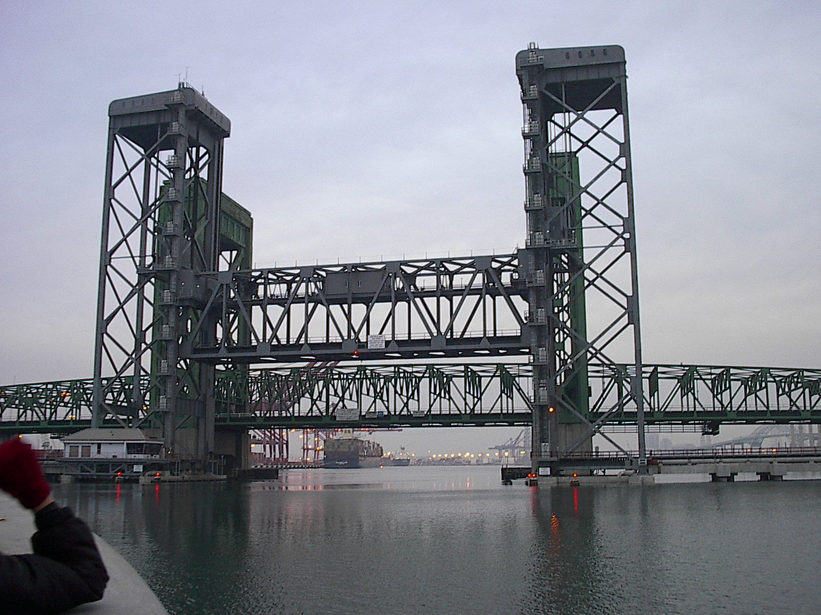 Commodore Schuyler F. Heim Bridge (green color, lowered in the background) on the Terminal Island Freeway, and the replacement 1996 Henry Ford Bridge on the Pacific Harbor Line railroad (gray color, slightly raised in the foreground) — in the Port of Los Angeles. The Commodore Heim Bridge, built in 1948, allows State Route 47 (Terminal Island Freeway) to cross over the Cerritos Channel from San Pedro to Terminal Island. It is the largest Vertical-lift bridge on the West Coast.